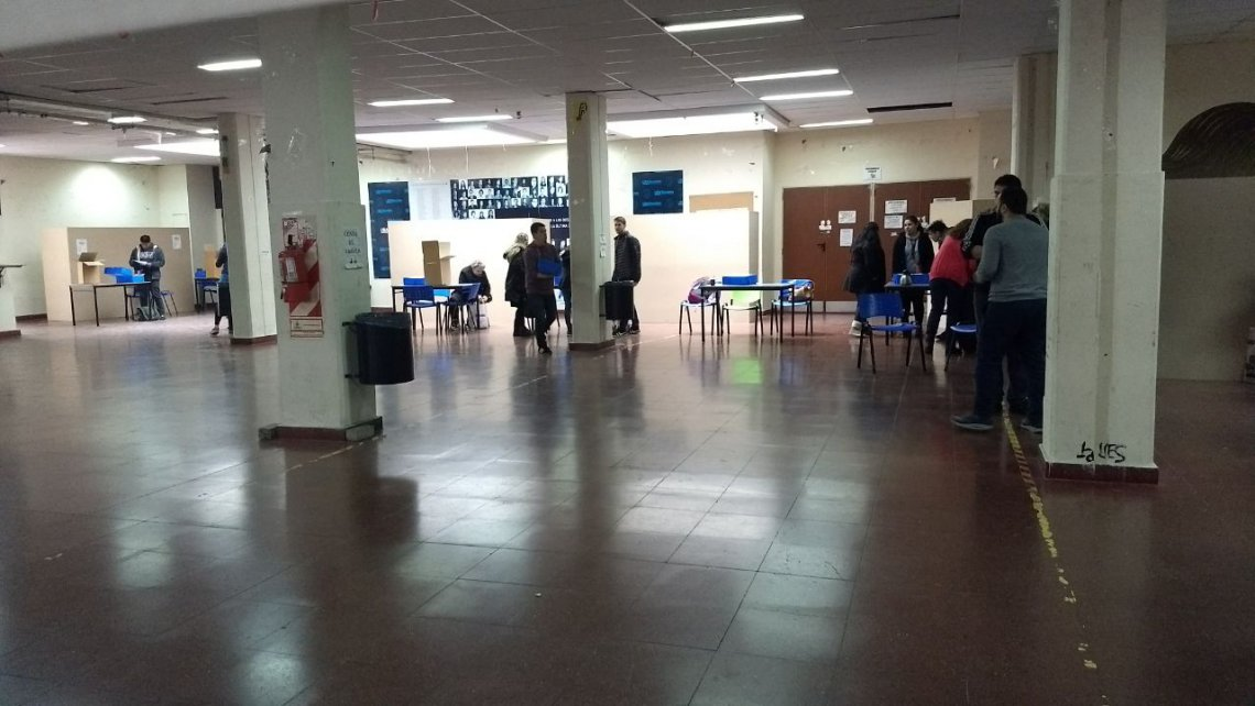 Hall central de la facultad